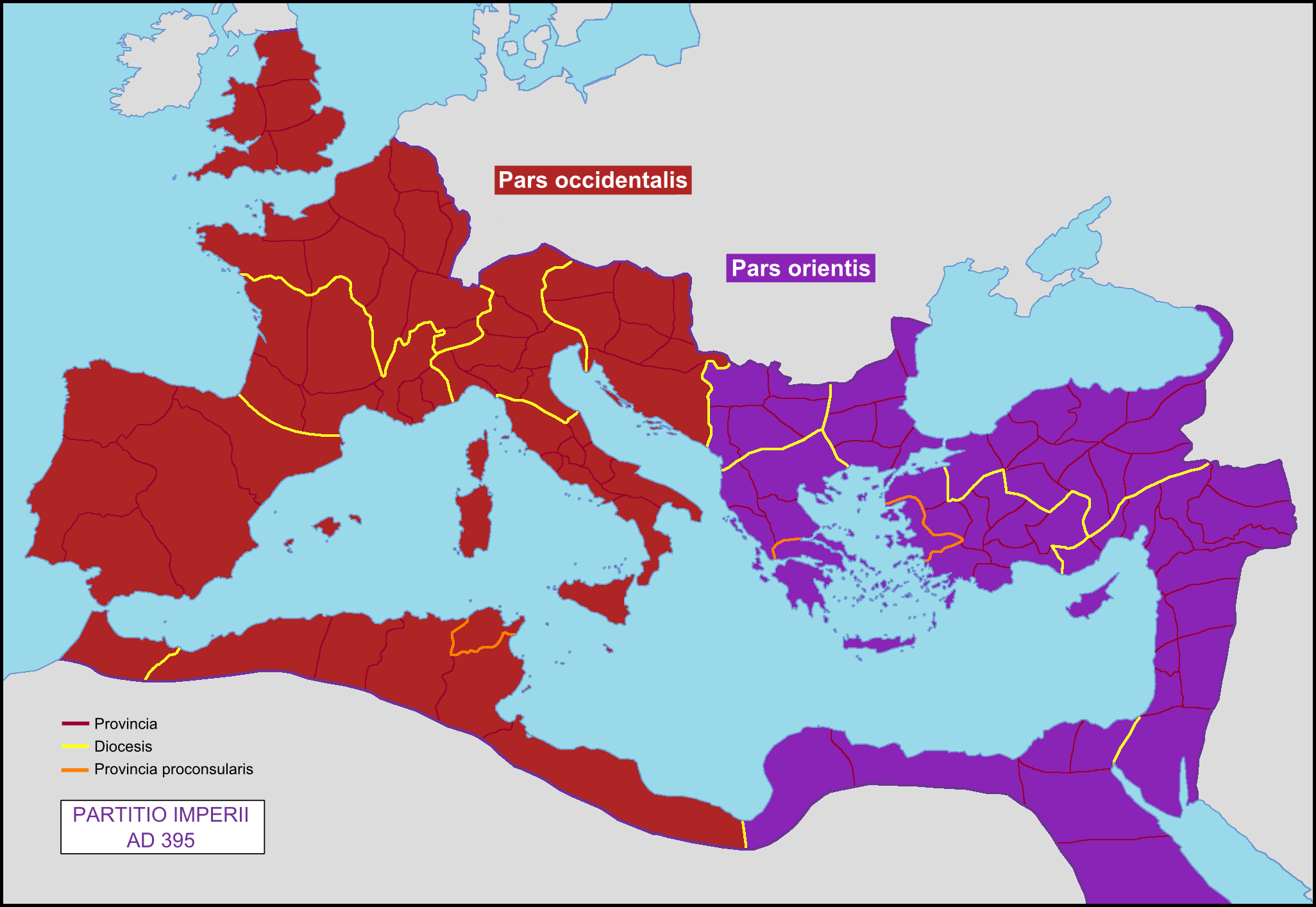 Map of the Roman Empire at the death of Theodosius, divided in two parts.